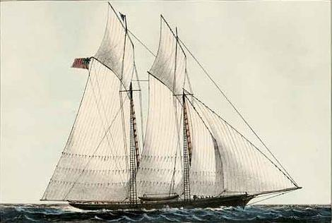 Hand colored lithograph of Schooner Yacht Cambria, 199 Tons. Winner of the Great Ocean Race Against the American Yacht Dauntless, from Daunt Rock, Queenstown, Ireland, July 4, to the Light Ship at Sandy Hook, July 27, 1870